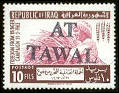 Postage stamp of Iraq overprinted 'At-Tawal', 10 fils, 1963 "Fantasies" issue